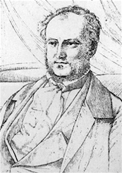 Detail of self-portrait by John Plumbe, Jr., 1846